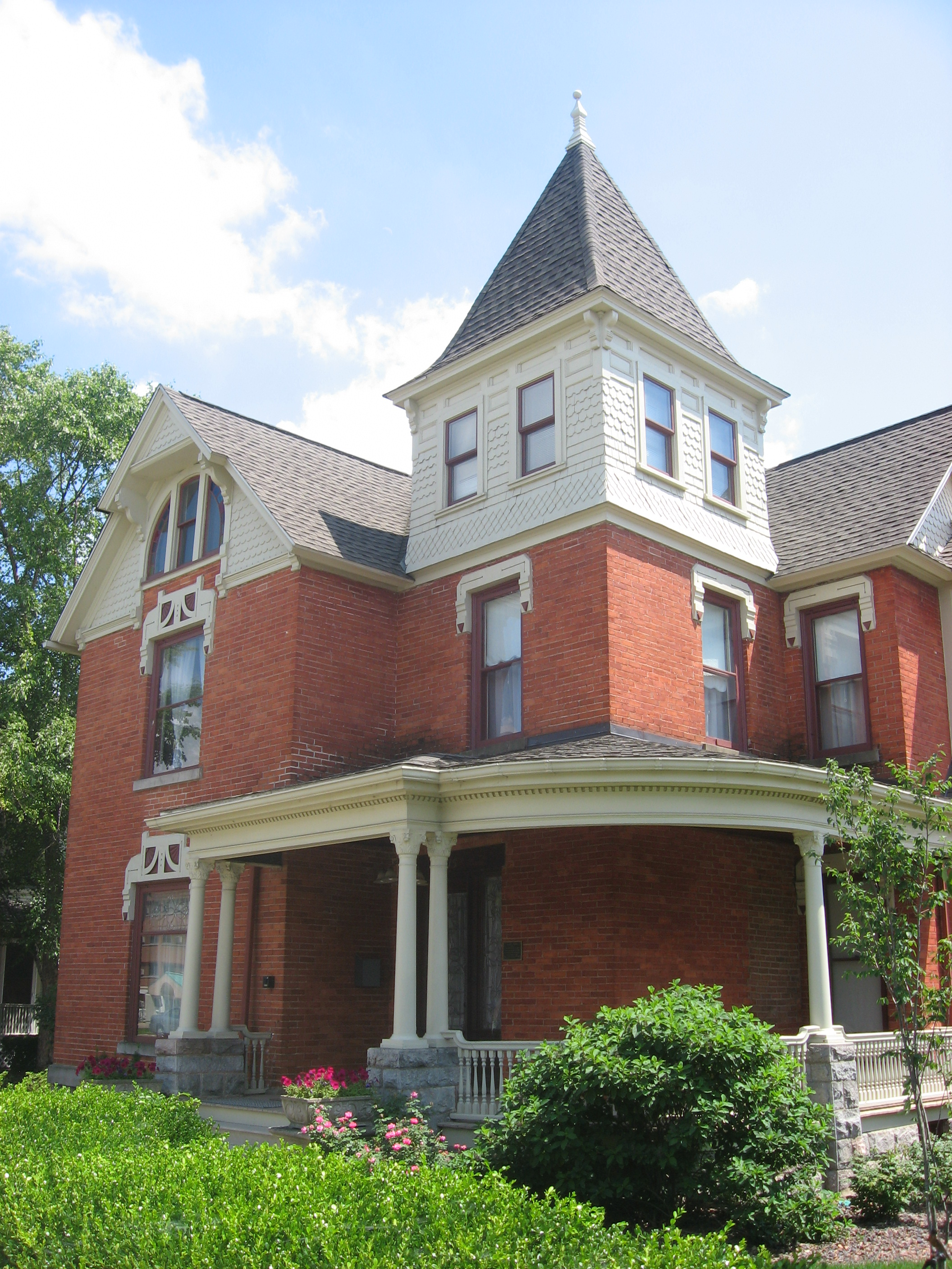 Front of the Dodge House, located at 415 E. Lincolnway (State Road 933) in Mishawaka, Indiana, United States. Built in 1889, it is listed on the National Register of Historic Places.